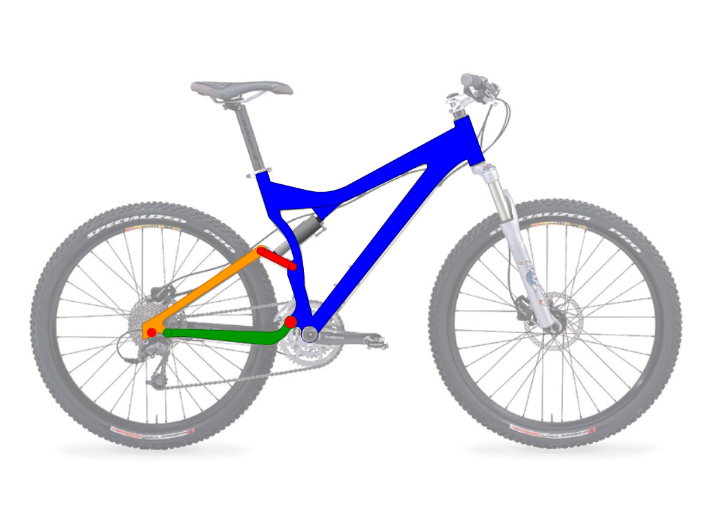 Represents a MoutainBike frame geometry, featuring a FSR technology. Based on a Specialized Stumpjumper FSR bike (2004 model)